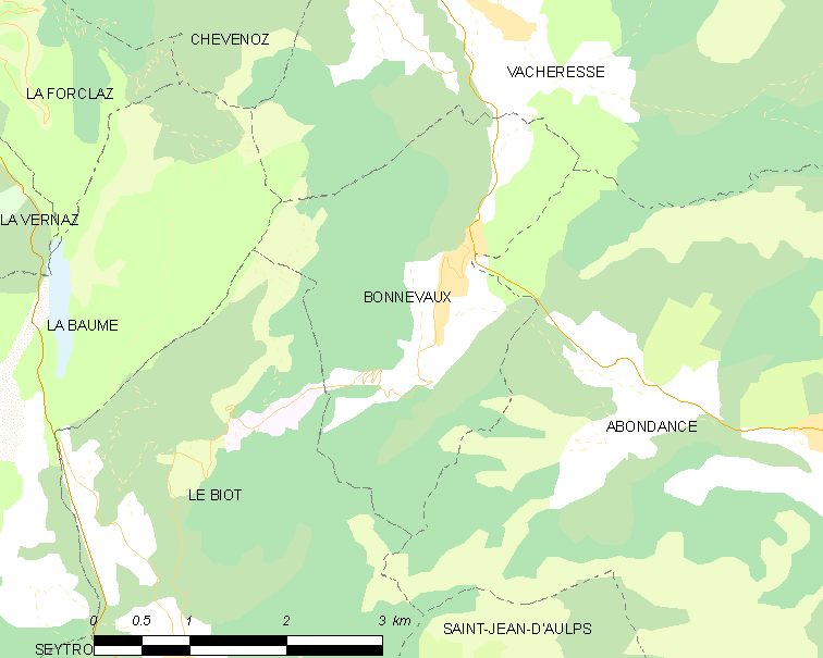 Map of French municipality Bonnevaux